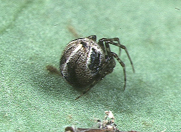 female Cryptachaea projectivulva from Okinawa.